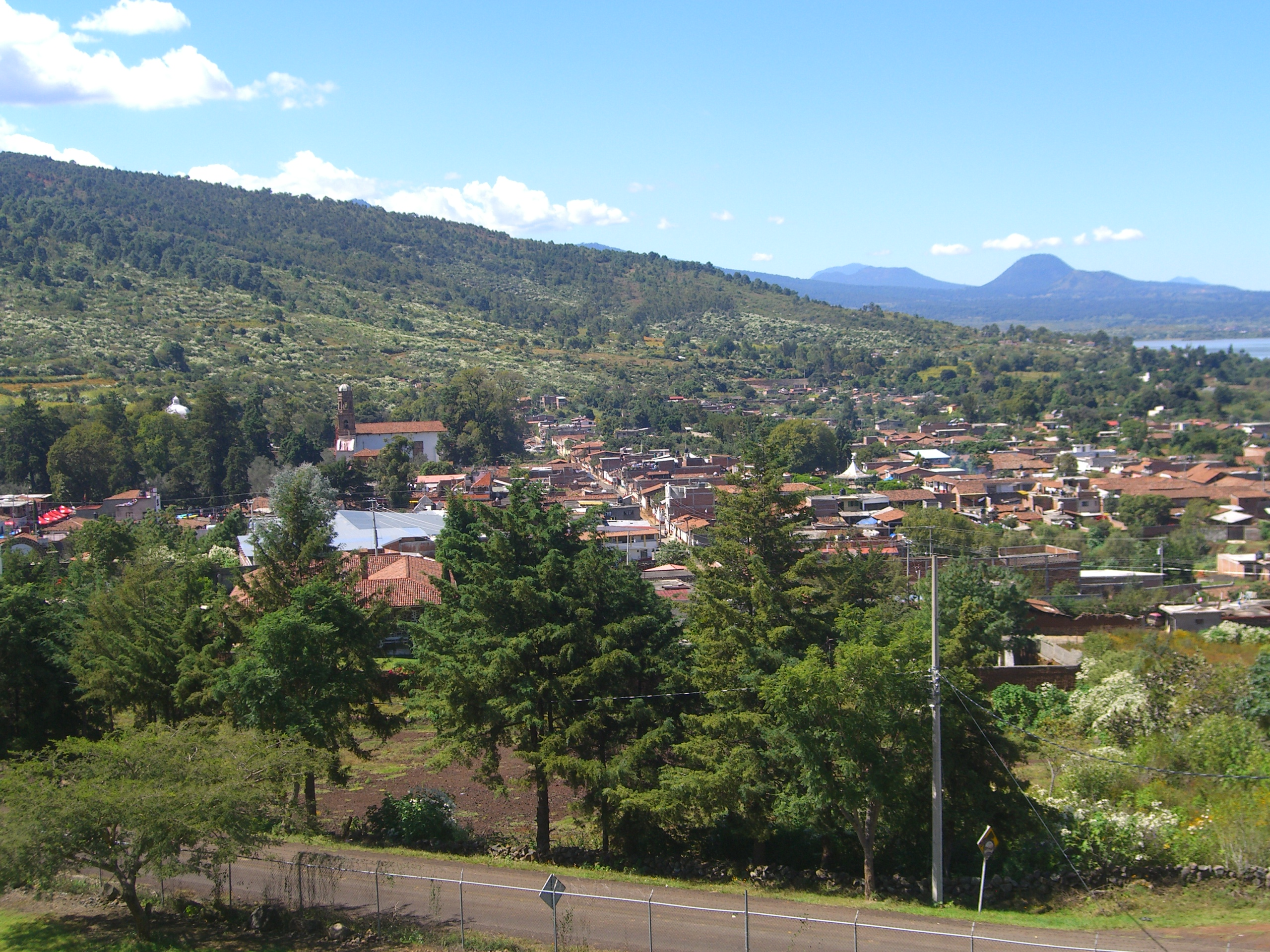 Village of Tzintzuntzán — in Michoacán state, México.